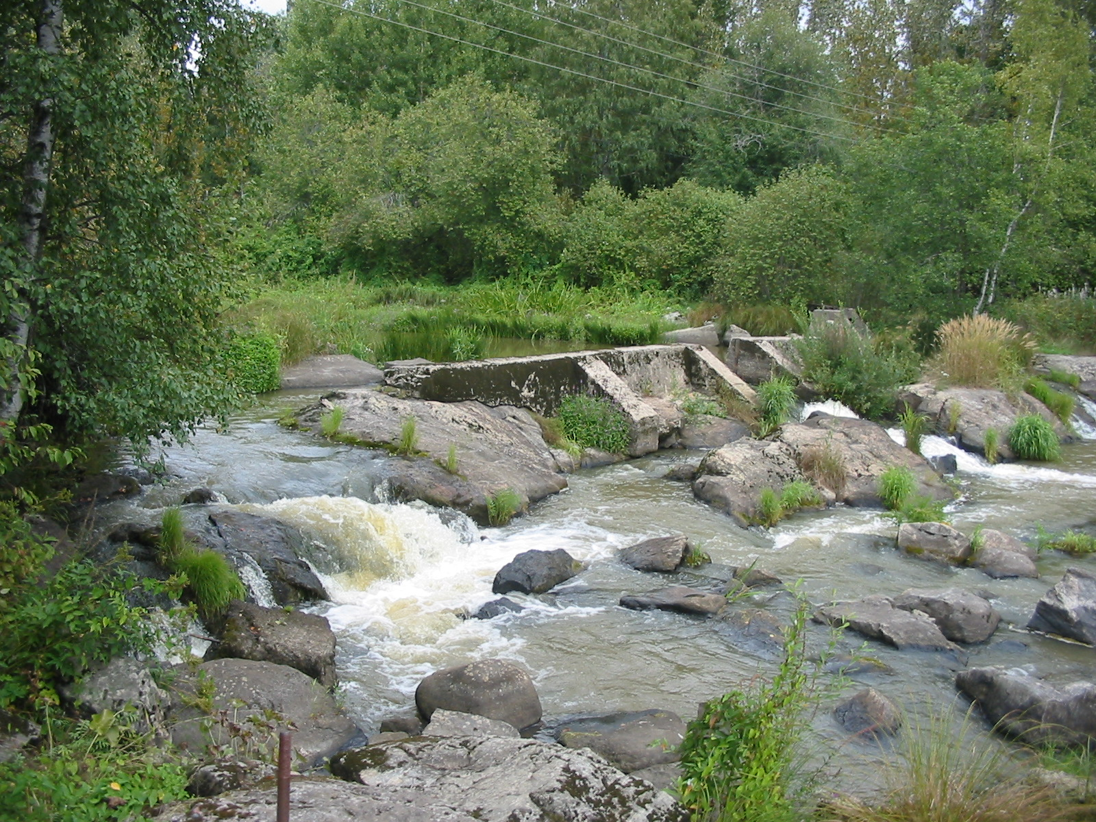 Patakoski rapids in Paimionjoki, Finland Proper